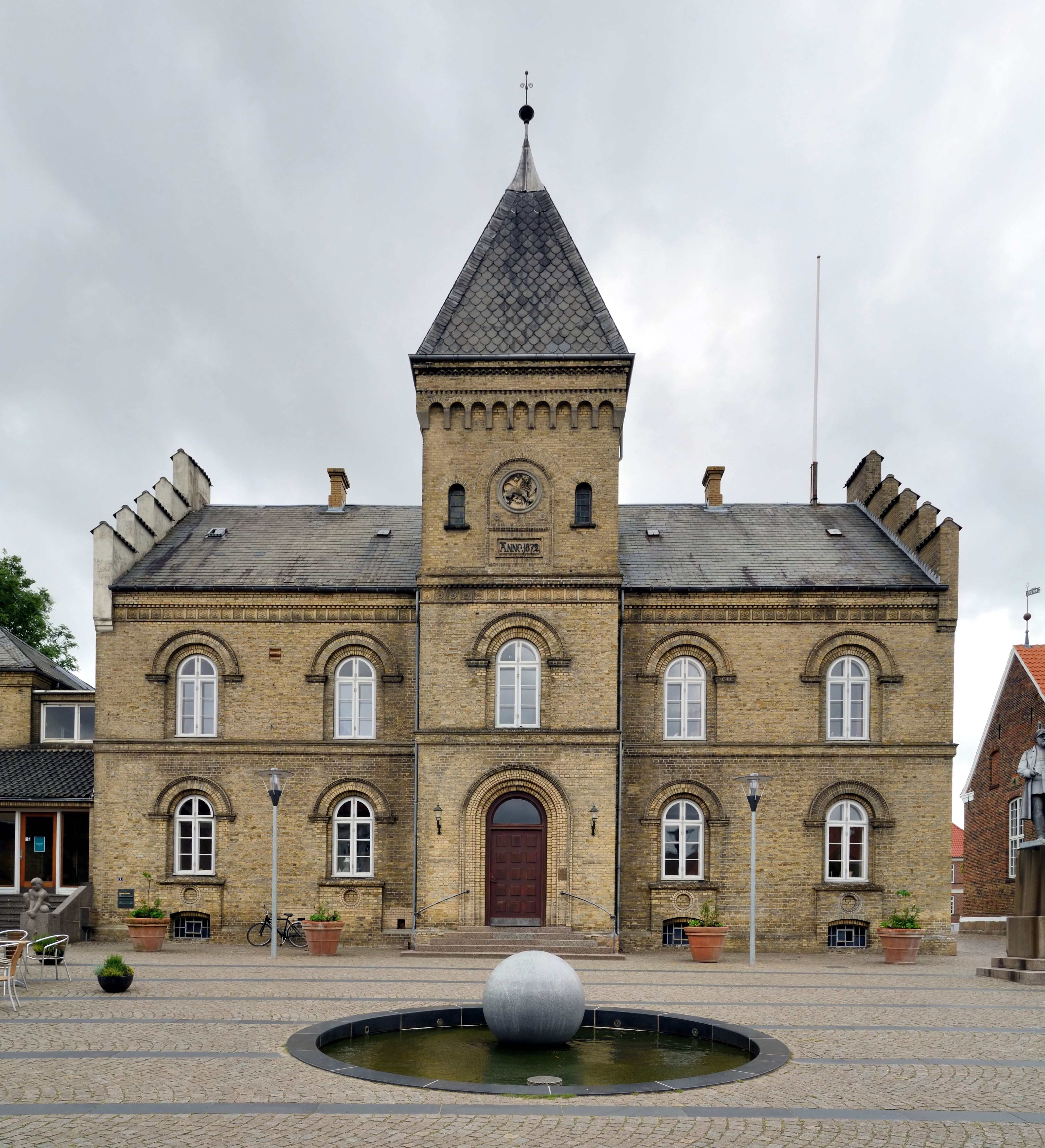 Varde: City hall